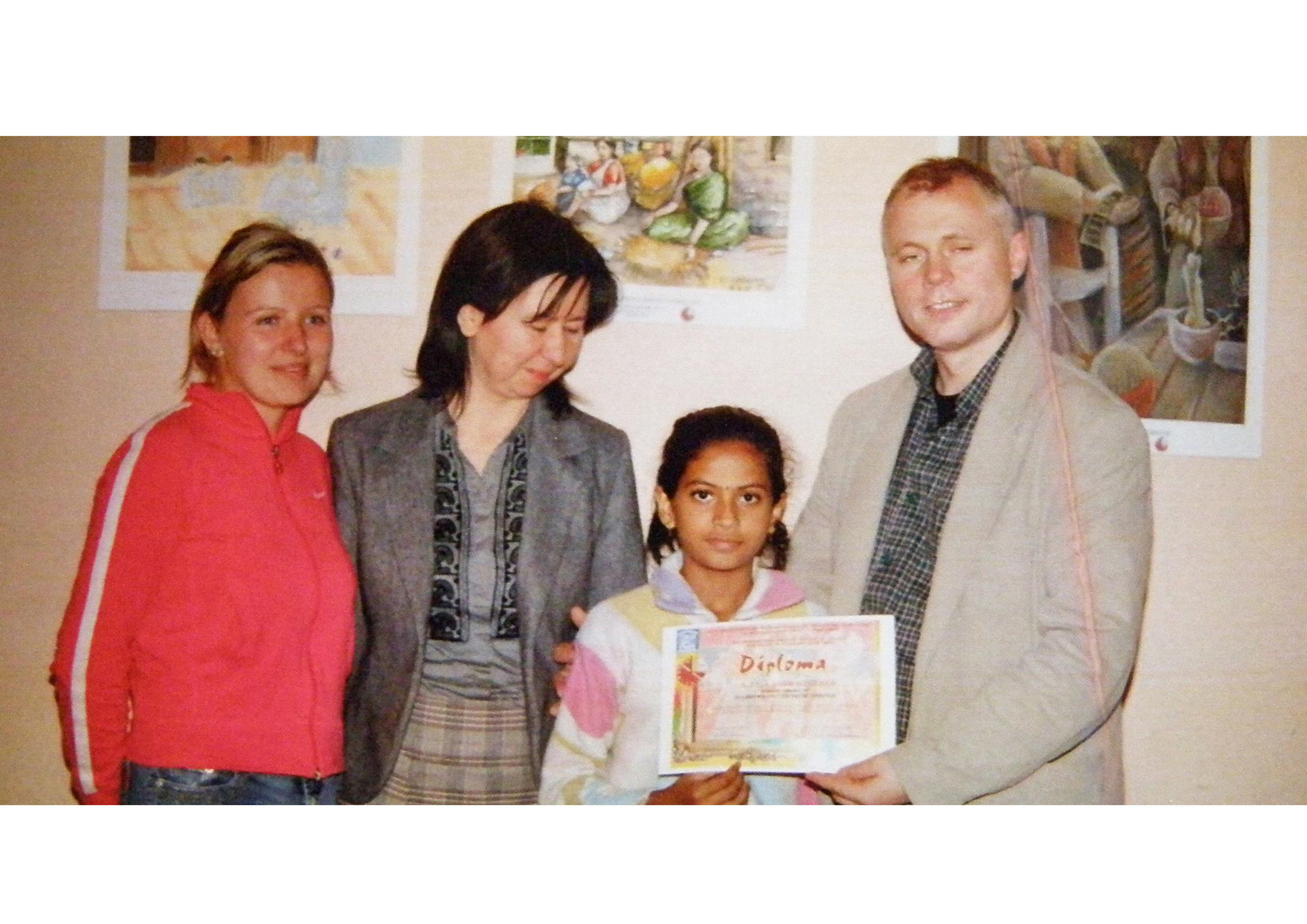 Lakshmishree receiving award in Poland.